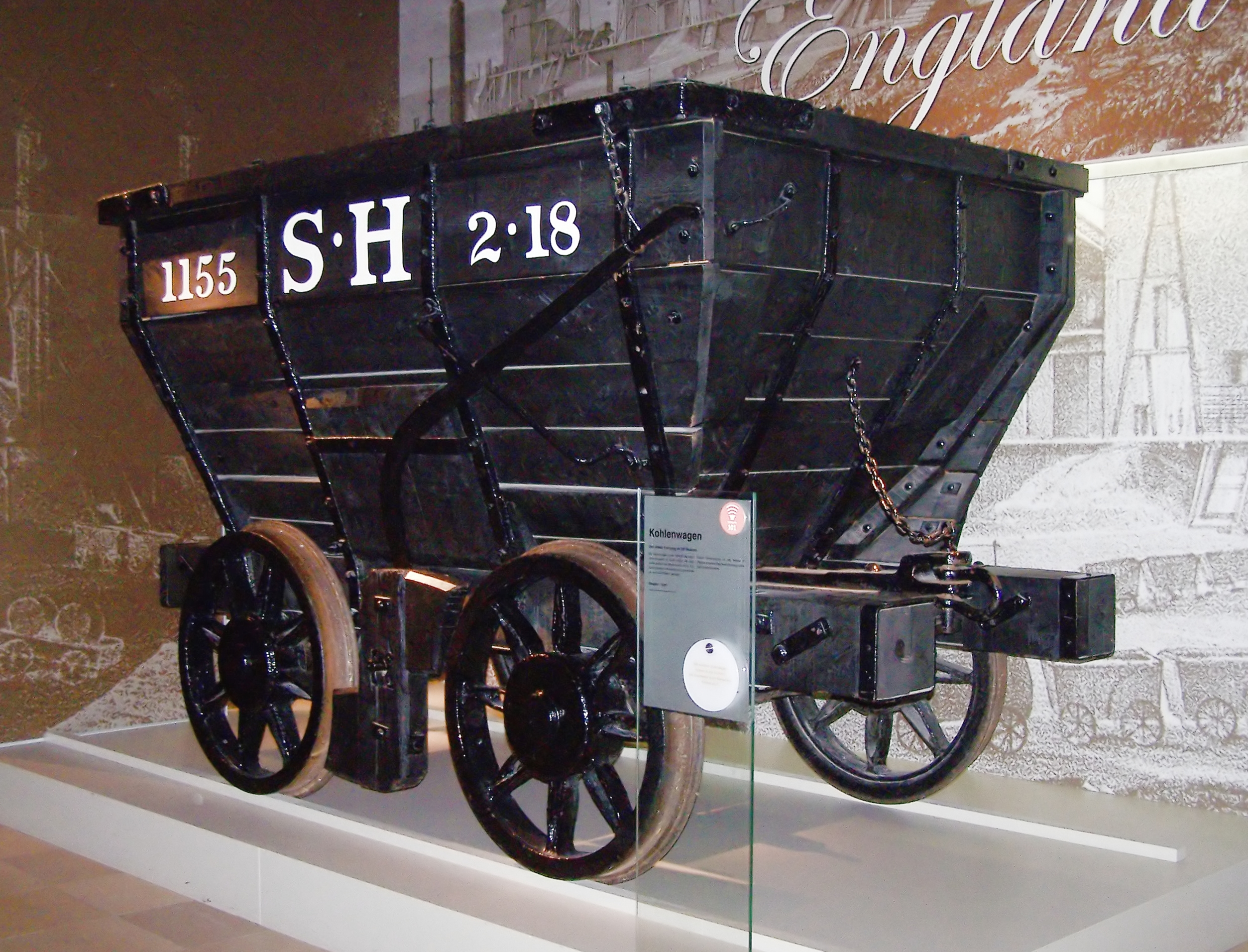 Coal car of 1829 originally used by the coal mine in South Hetton near Newcastle, in the Transport Museum in Nuremberg, oldest existing railway vehicle outside UK